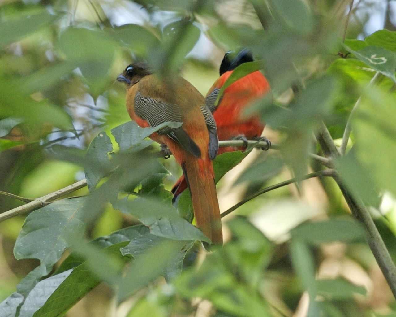 Scarlet-rumped Trogon - Pair with male on right Harpactes duvaucelii March 4, 2007 Location: Panti Forest, Johor, Malysia Status : Near threatened Trogon (Harpactes duvaucelii) - Malesearch.html?acti... Habitat: Malay: Kesumba Puteri Thai: นกขุนแผนตะโพกแดง